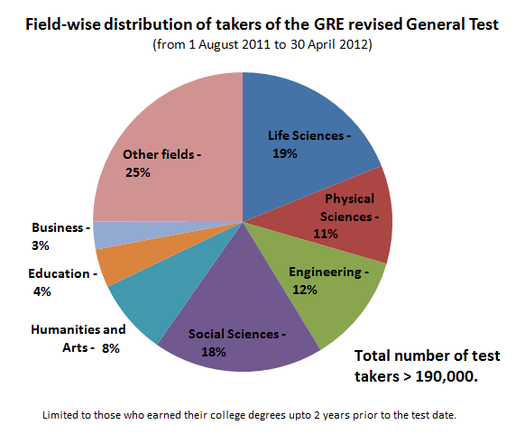 for test takers from 1 august 2011 to 30 april 2012.